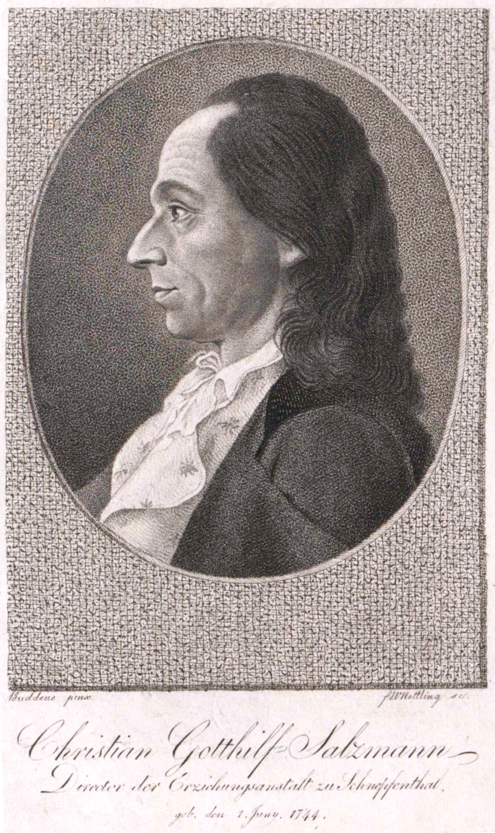 Christian Gotthilf Salzmann (1744–1811)